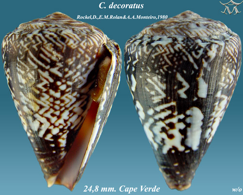 Conus decoratus3